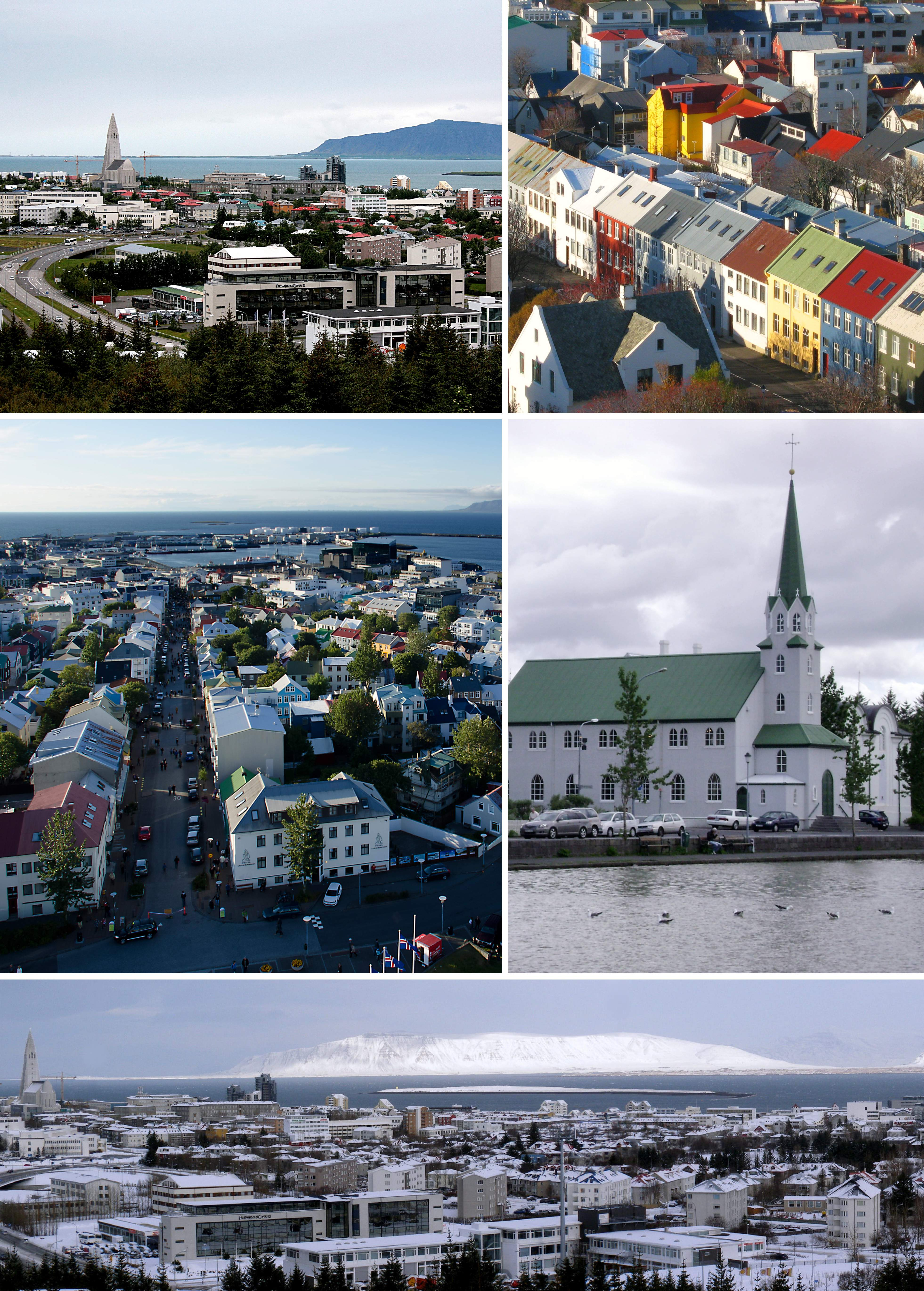 Landscape highlights in ReykjavikFrom upper left: View of Reykjavik during summer seen from Perlan, rooftops of houses seen from Hallgrímskirkja, View of Reykjavik from Hallgrímskirkja from different angle, Fríkirkjan (church) in Reykjavík, panorama from Perlan during winter